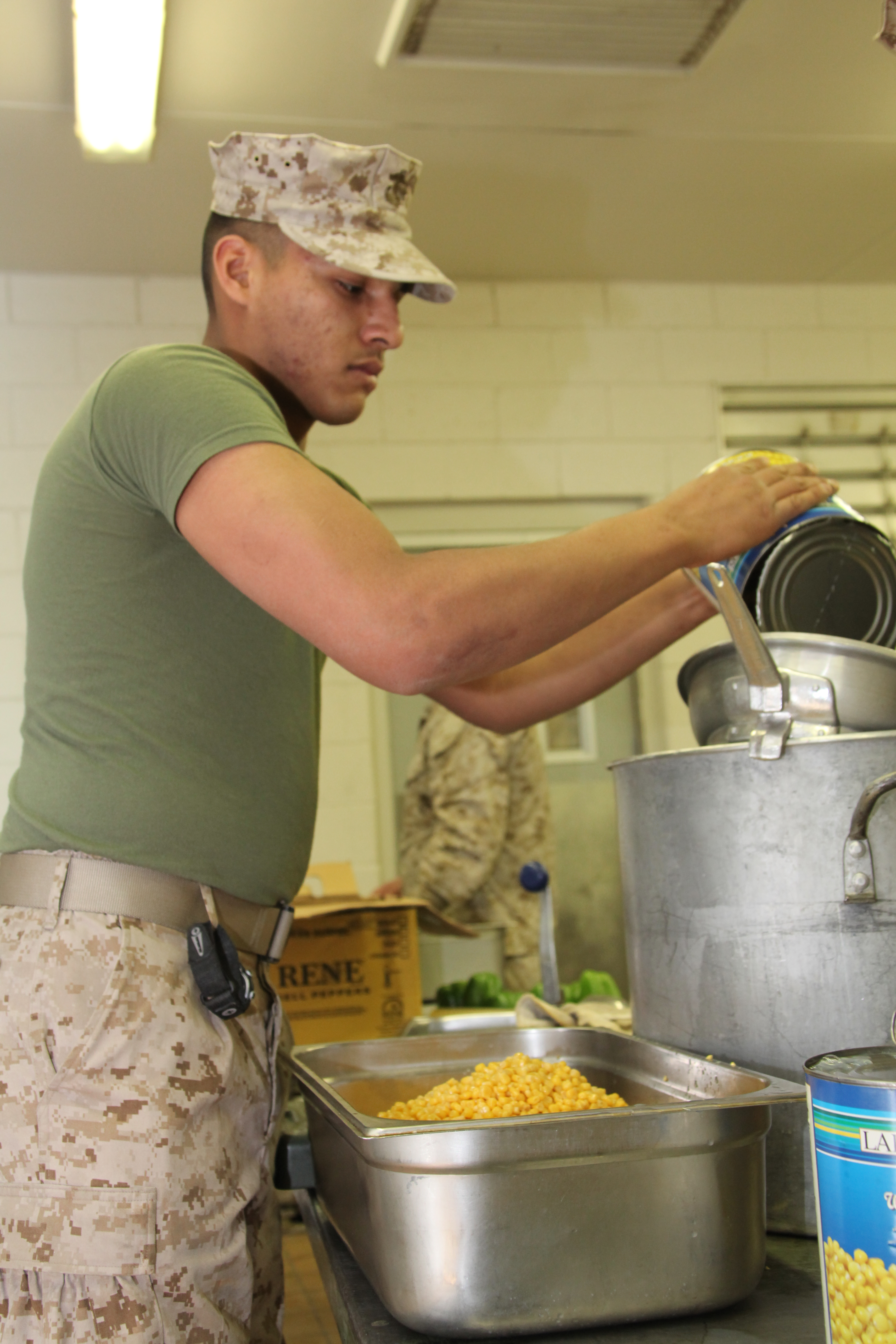 Private First Class Oscar M. Soto, a food service specialist with 26th Marine Expeditionary Unit’s Battalion Landing Team 3/8, drains a can of corn for evening chow at a Fort Pickett mess hall during the MEU’s exercise aboard Fort Pickett, Va., March 30, 2010. The exercise is the first in a series of training evolutions for the MEU that will culminate in its deployment aboard the ships of the Kearsarge Amphibious Ready Group in the fall. (Official United States Marine Corps Photo by Lance Cpl. Santiago G. Colon Jr.) (Released)